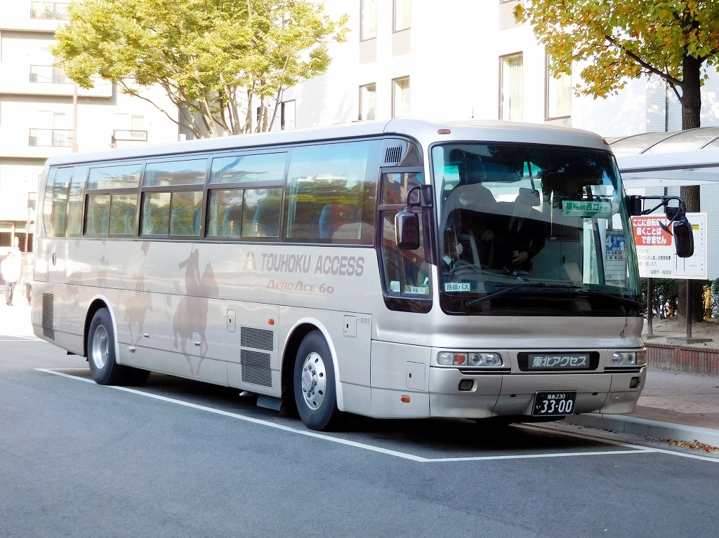 Tohoku Access Mitsubishi Fuso Aero Bus (express bus Minamisoma-Fukushima)